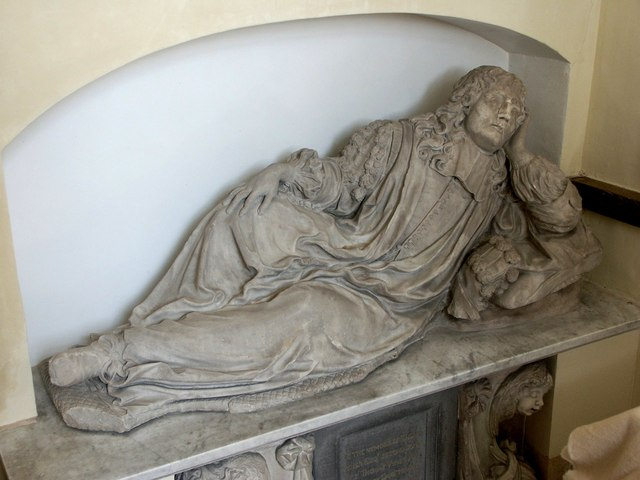 Interior of All Saints, Gautby. One of two reclining monuments to the Vyner family.